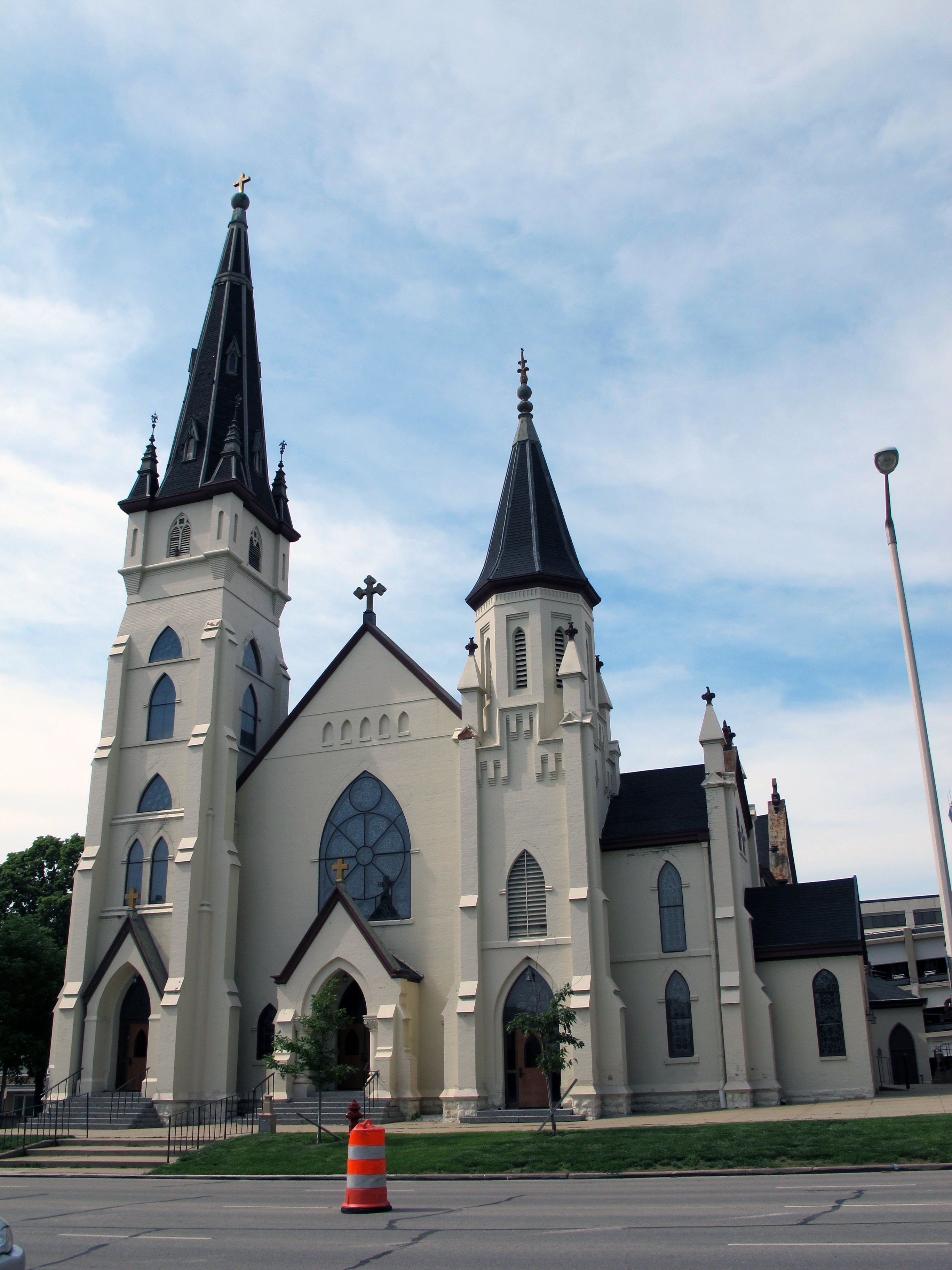 Photo of St. Mary's Catholic Church, 1420 "K" Street in Lincoln, Nebraska. Photo is taken from the south side of "K" Street, alongside the northwest lawn of the Nebraska State Capitol; looking north-northwest.